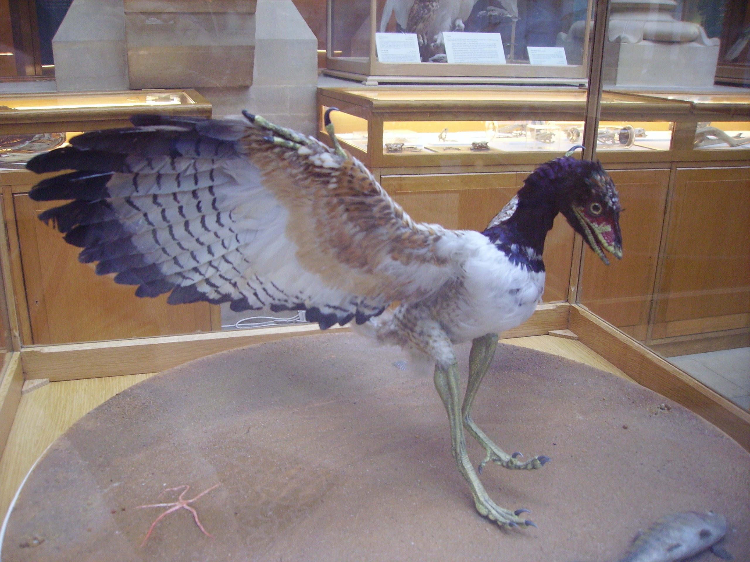 Archaeopteryx lithographica, Oxford Museum.